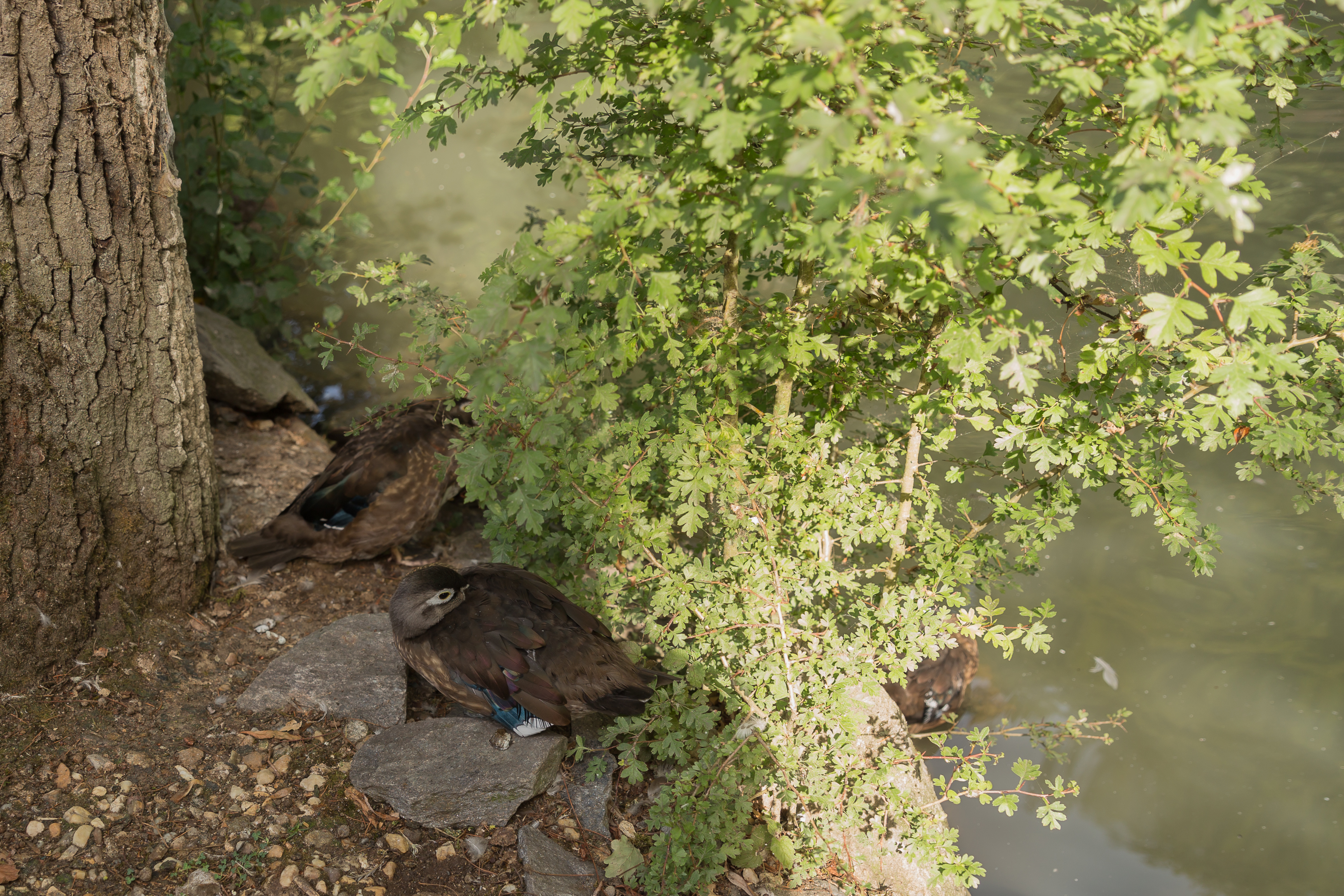 Aix galericulata (Mandarin duck) female in the ZooParc Beauval in Saint-Aignan-sur-Cher, France.